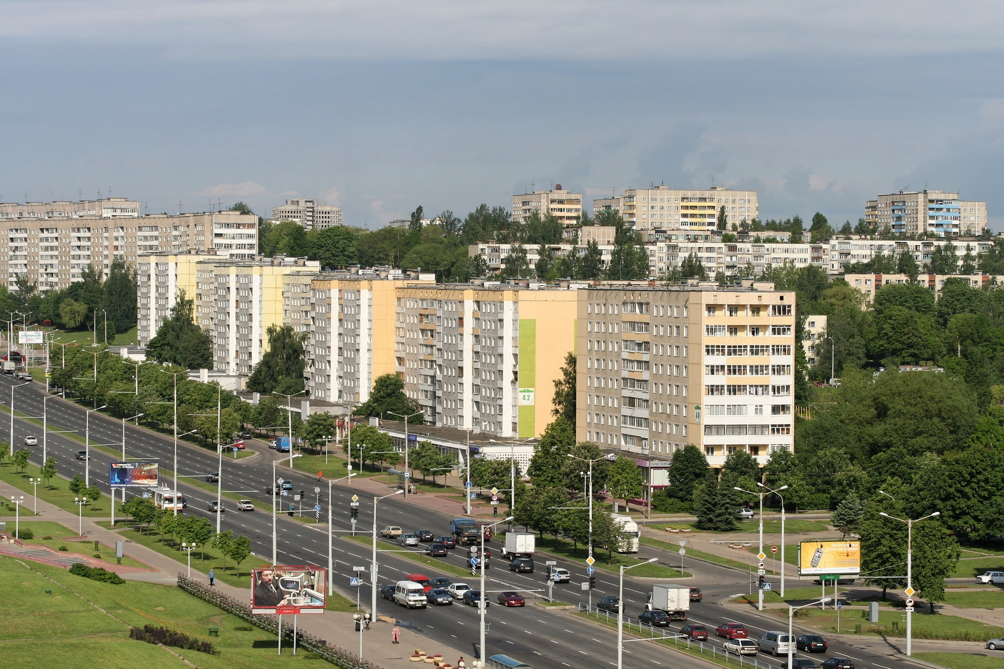 Intersection of Prytytski and Serdzich streets. View from hotel "Orbit" Minsk, Belarus.